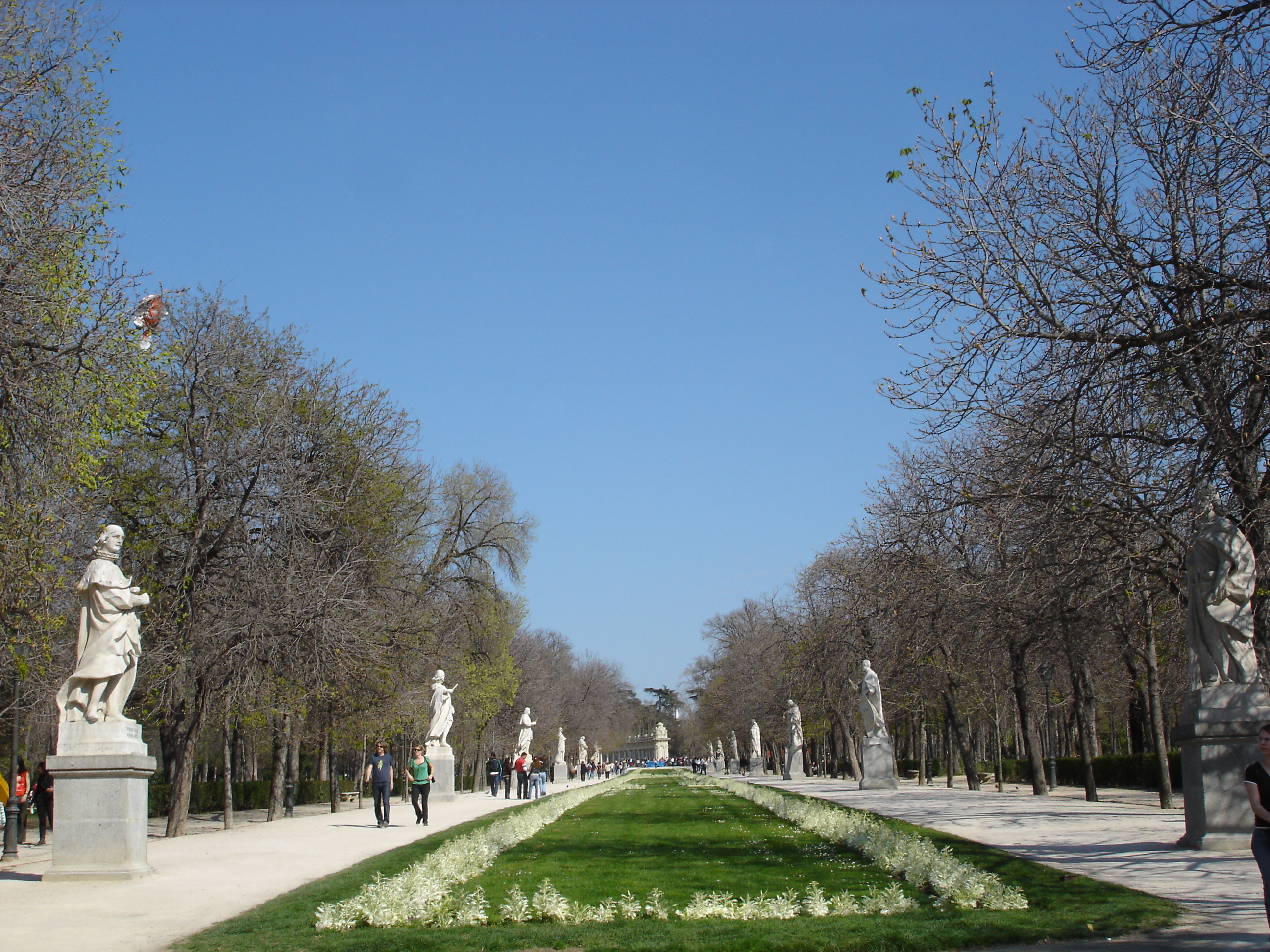 The Paseo de la Argentina is a sculpture walk and open air museum along a landscape avenue (allée) in Retiro Park (Jardines del Buen Retiro) in central Madrid, Spain.